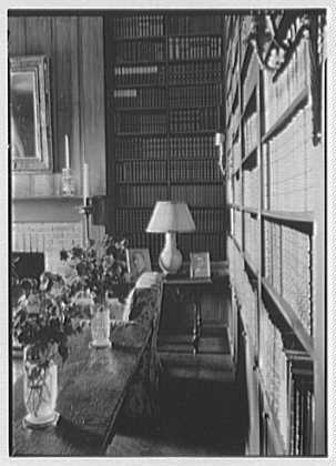 Title: Irving Berlin, residence at 130 E. End Ave., New York City. Abstract/medium: Gottscho-Schleisner Collection (Library of Congress) Physical description: 1 negative